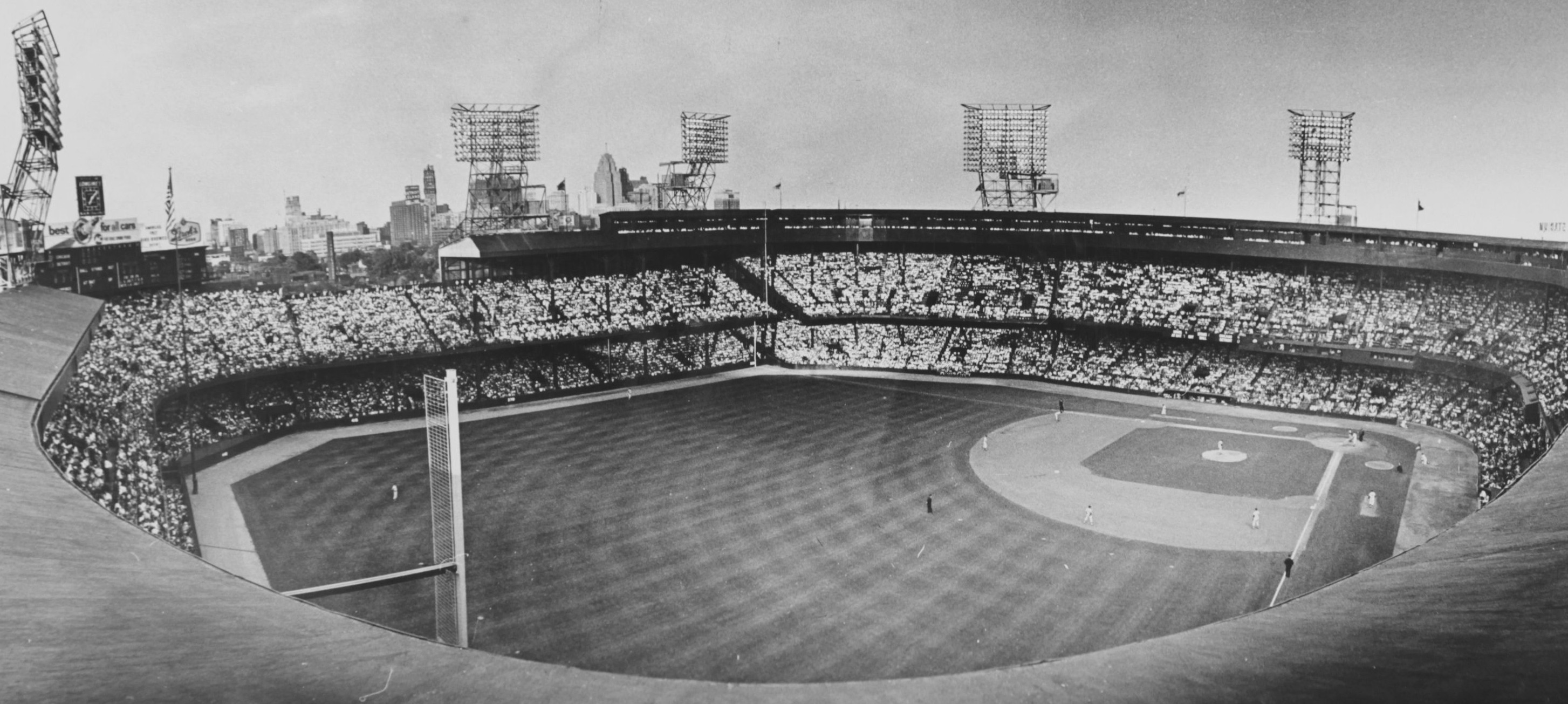 Tiger Stadium in Detroit, Michigan in 1961